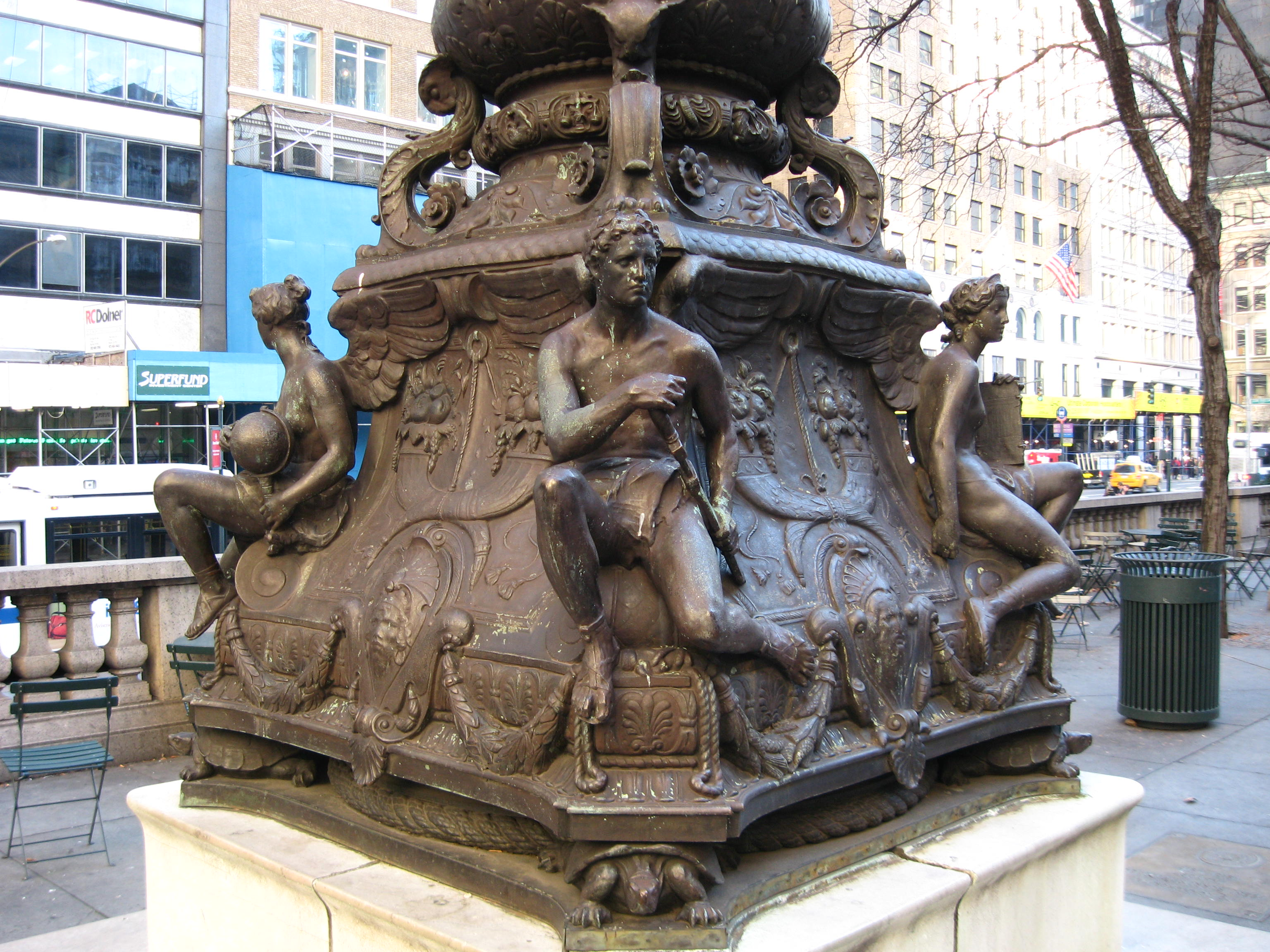 Looking south at northern flagpole base in front of New York Public Library.